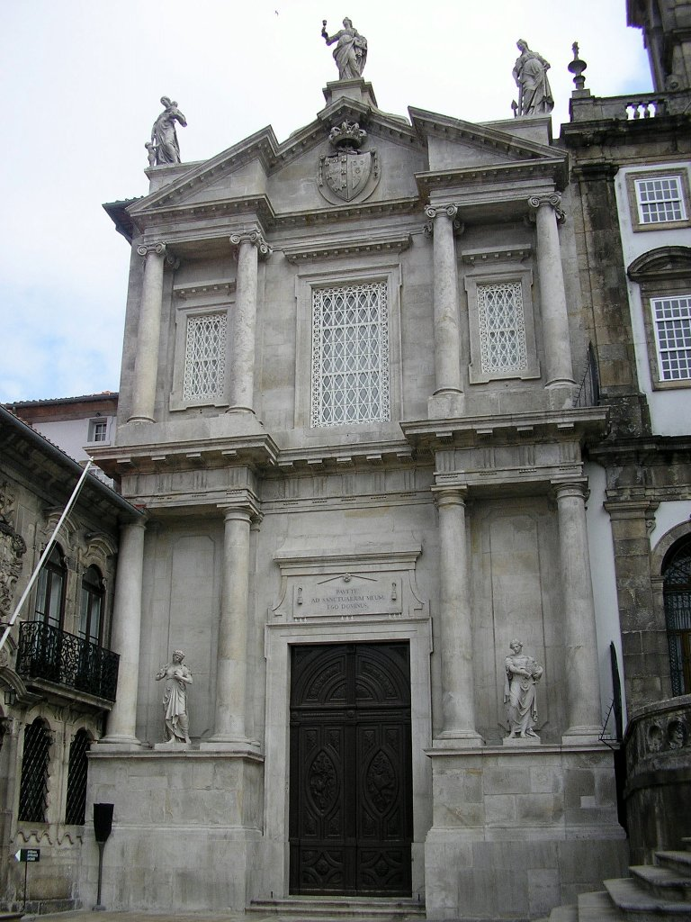 Church of the Third Order of Franciscans in Porto city, Portugal.